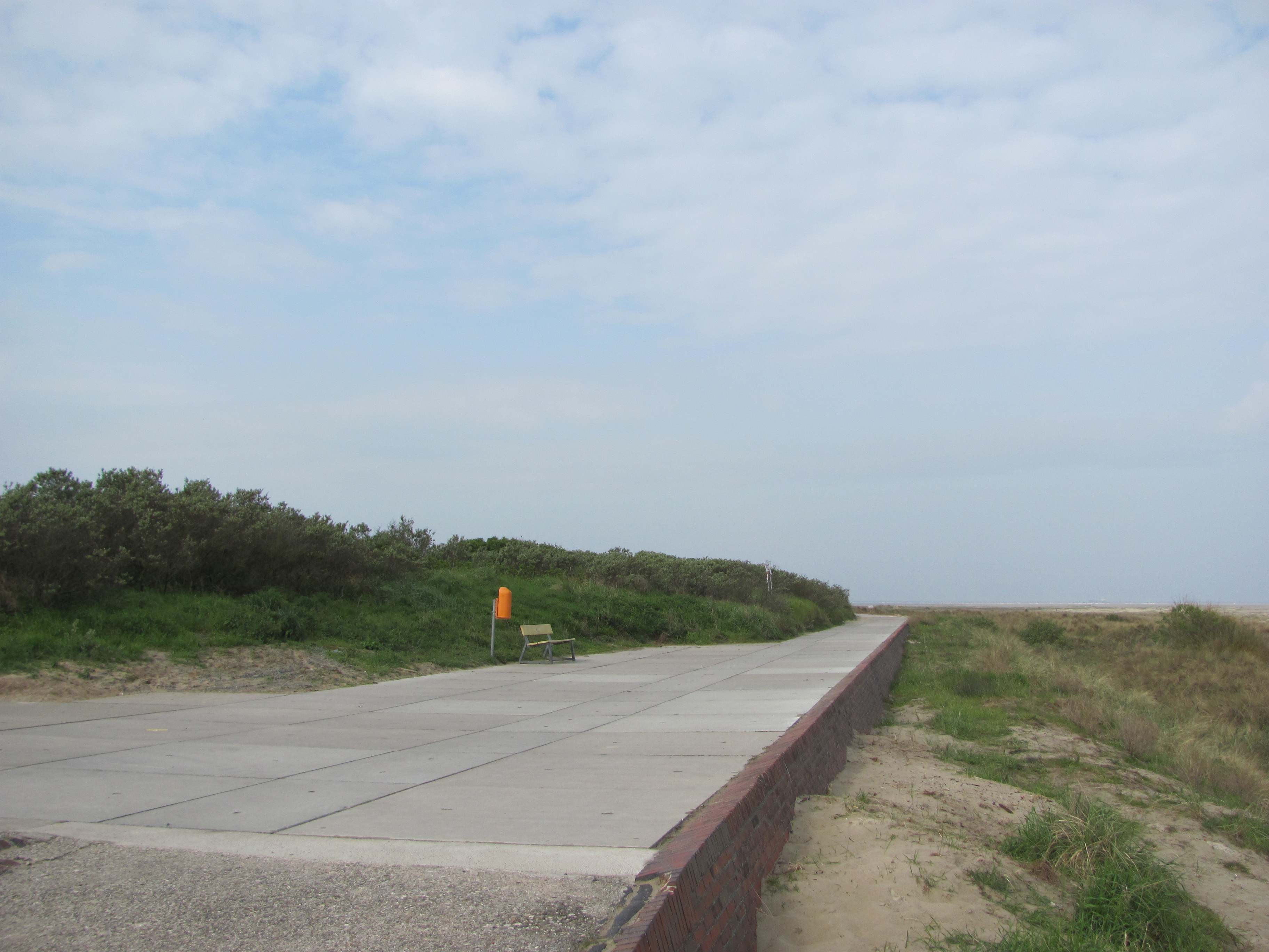 End of the former alignment of Nordstrandbahn railway line, Borkum, Germany